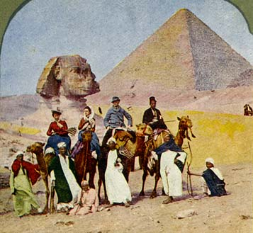 19th Century Tourists at the Sphynx & Pyramids of Giza, from a period stereopticon card photo, from collection of Infrogmation